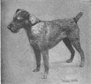 Irish Terrier. (From Photo by Bowden Bros.)